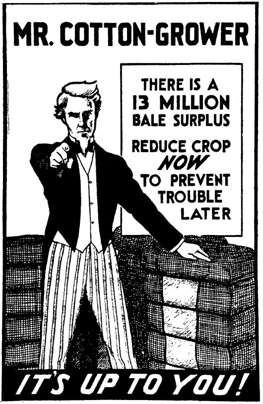 Propaganda by the National Recovery Administration, urging farmers to cut cotton production.